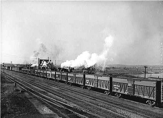 An Atchison, Topeka and Santa Fe Railway train full of stock cars leaves the yard for points east.